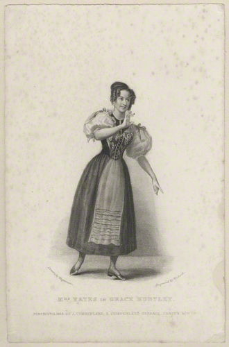 Portrait of Elizabeth Yates (née Brunton) (1799–1860), English actress, in the melodrama Grace Huntley.